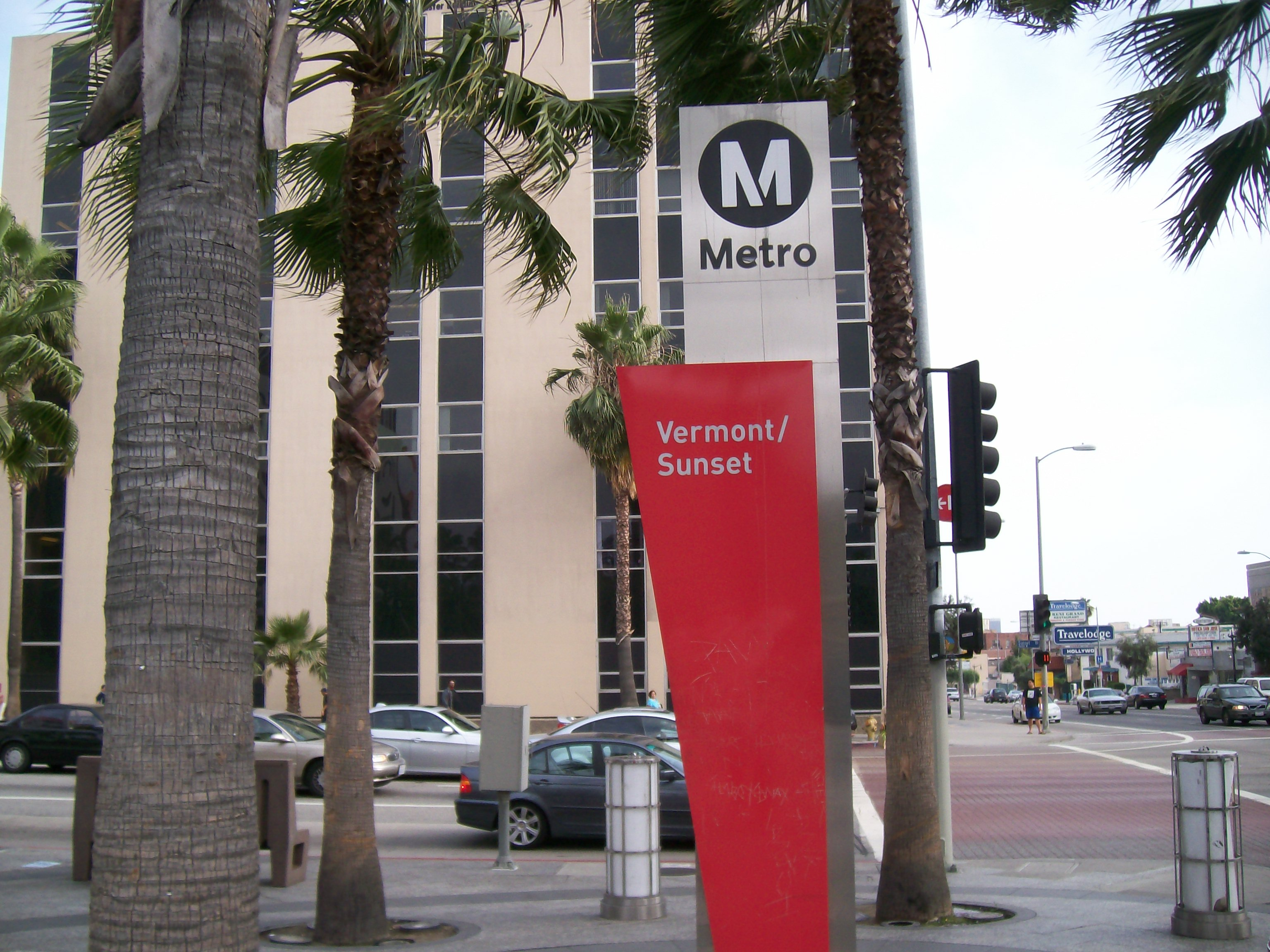 Sign outside of Vermont/Sunset station, on the Metro Red Line.